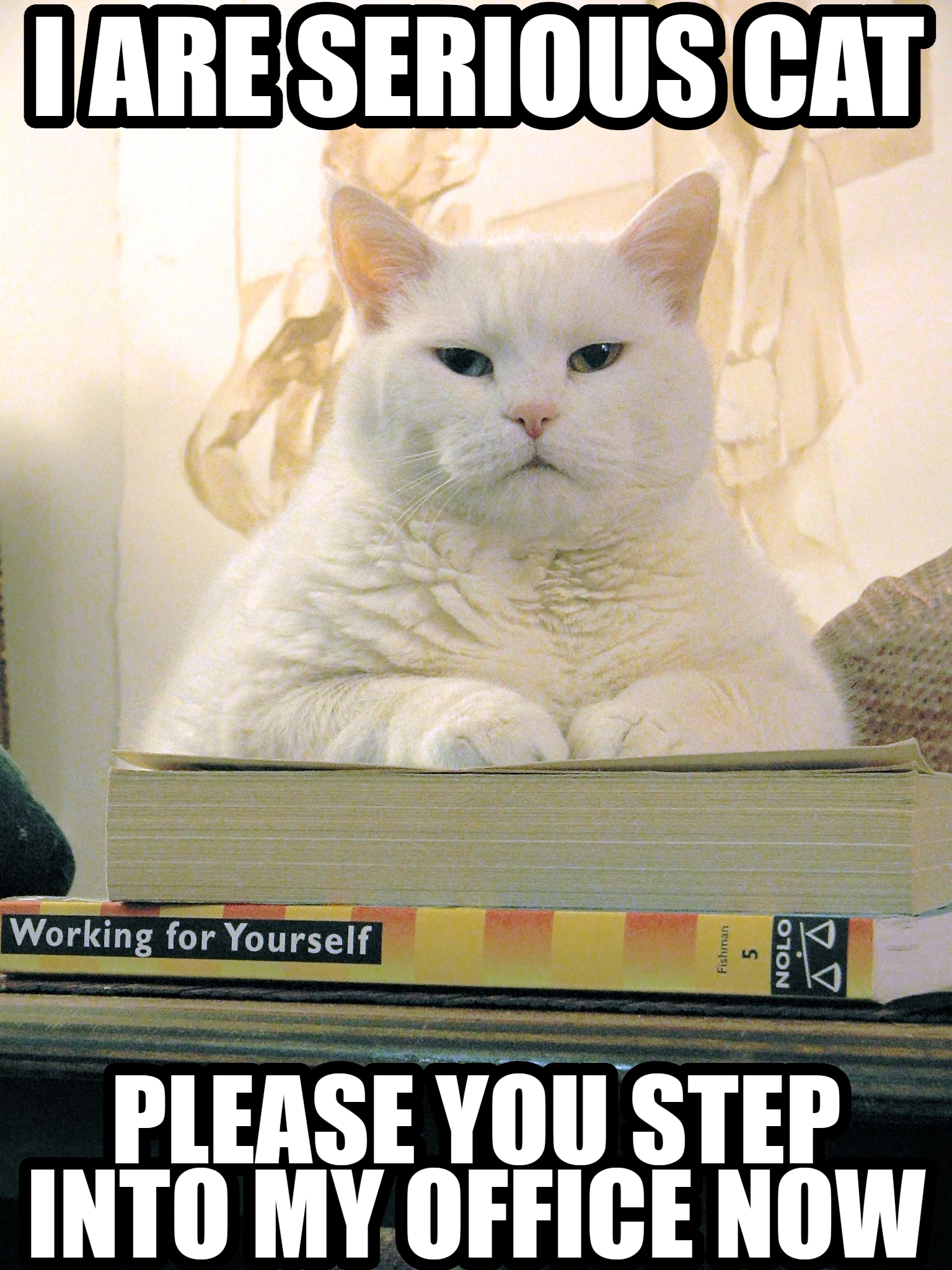 Step into her office now. Original photo here. Update: Welcome, cheezburgers. More info on this macro here.